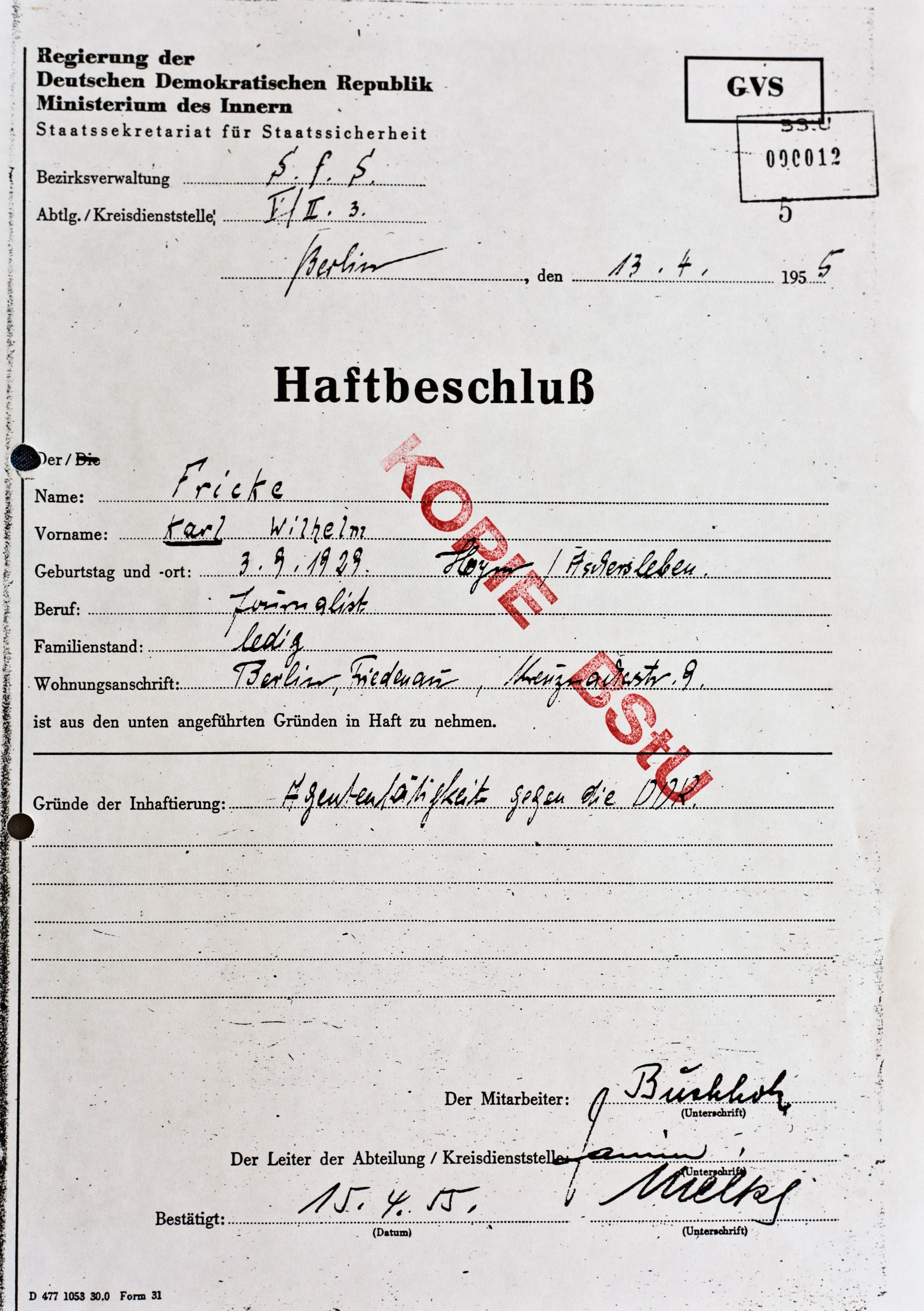 Imprisonment statement for the german journalist Karl Wilhelm Fricke, 1955, with a signature of Stasi-Chief Erich Milke.